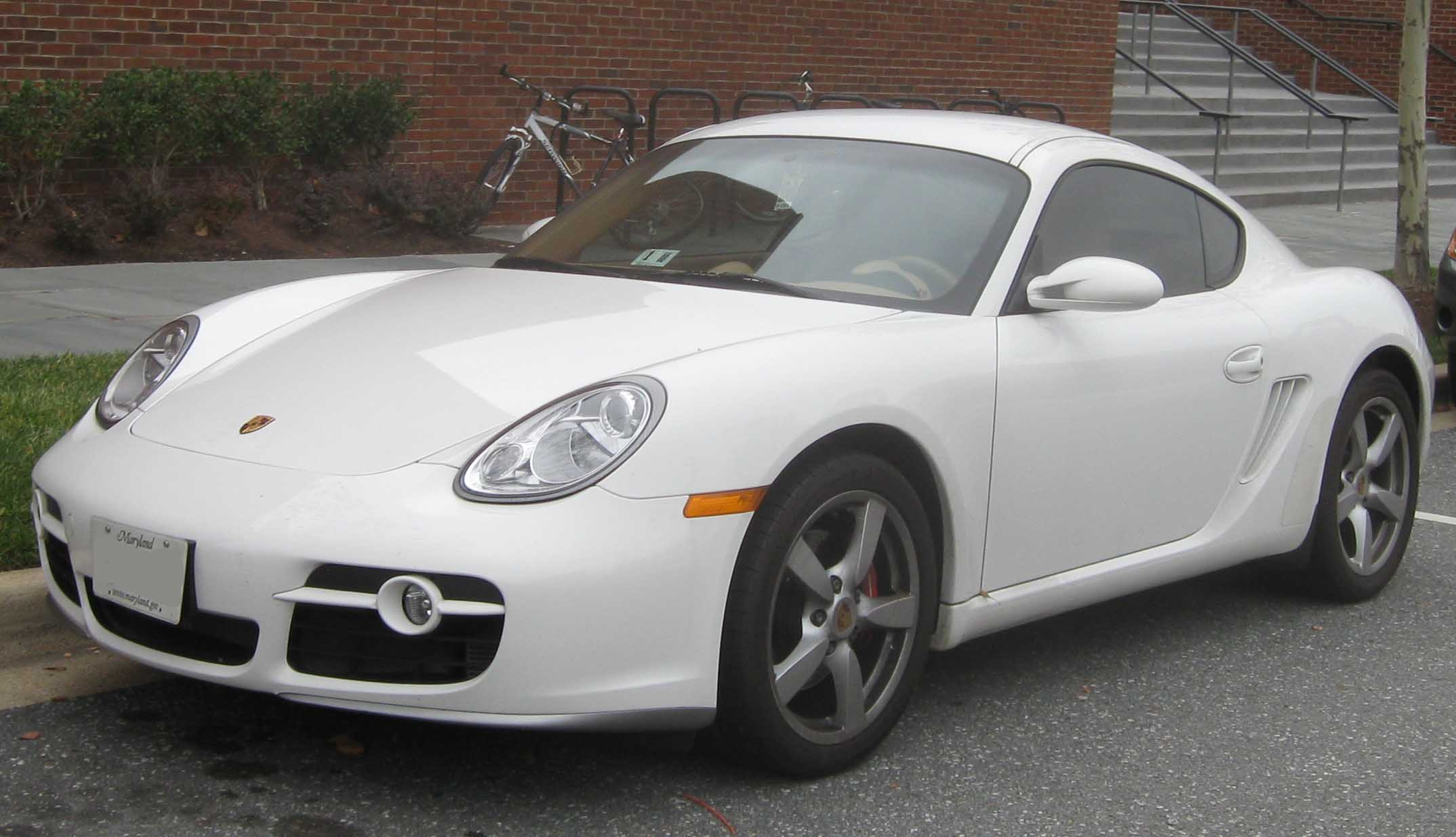 Porsche Cayman photographed in College Park, Maryland, USA.